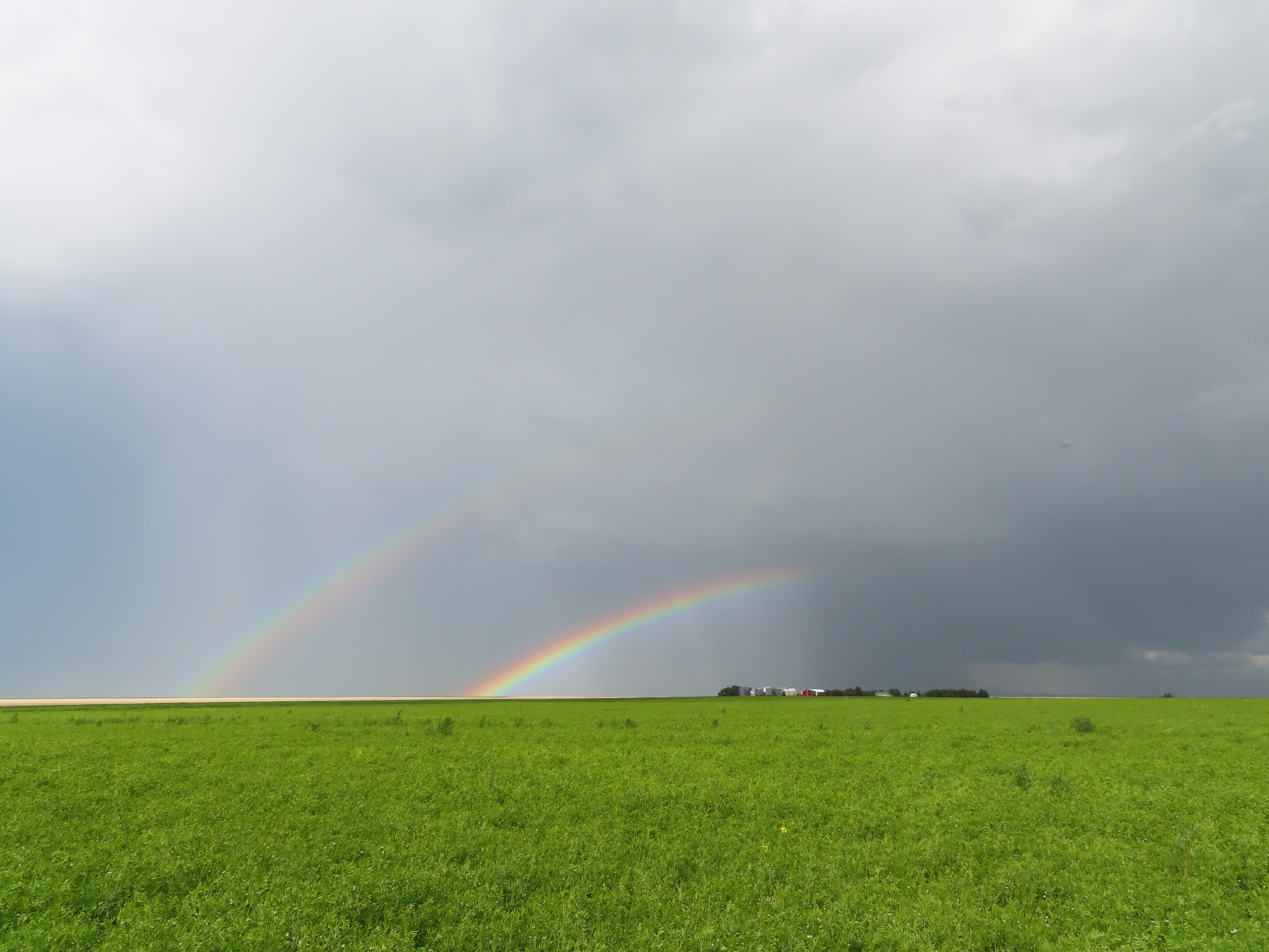 Double rainbow photographed on Saskatchewan Highway 4, south of Kyle.